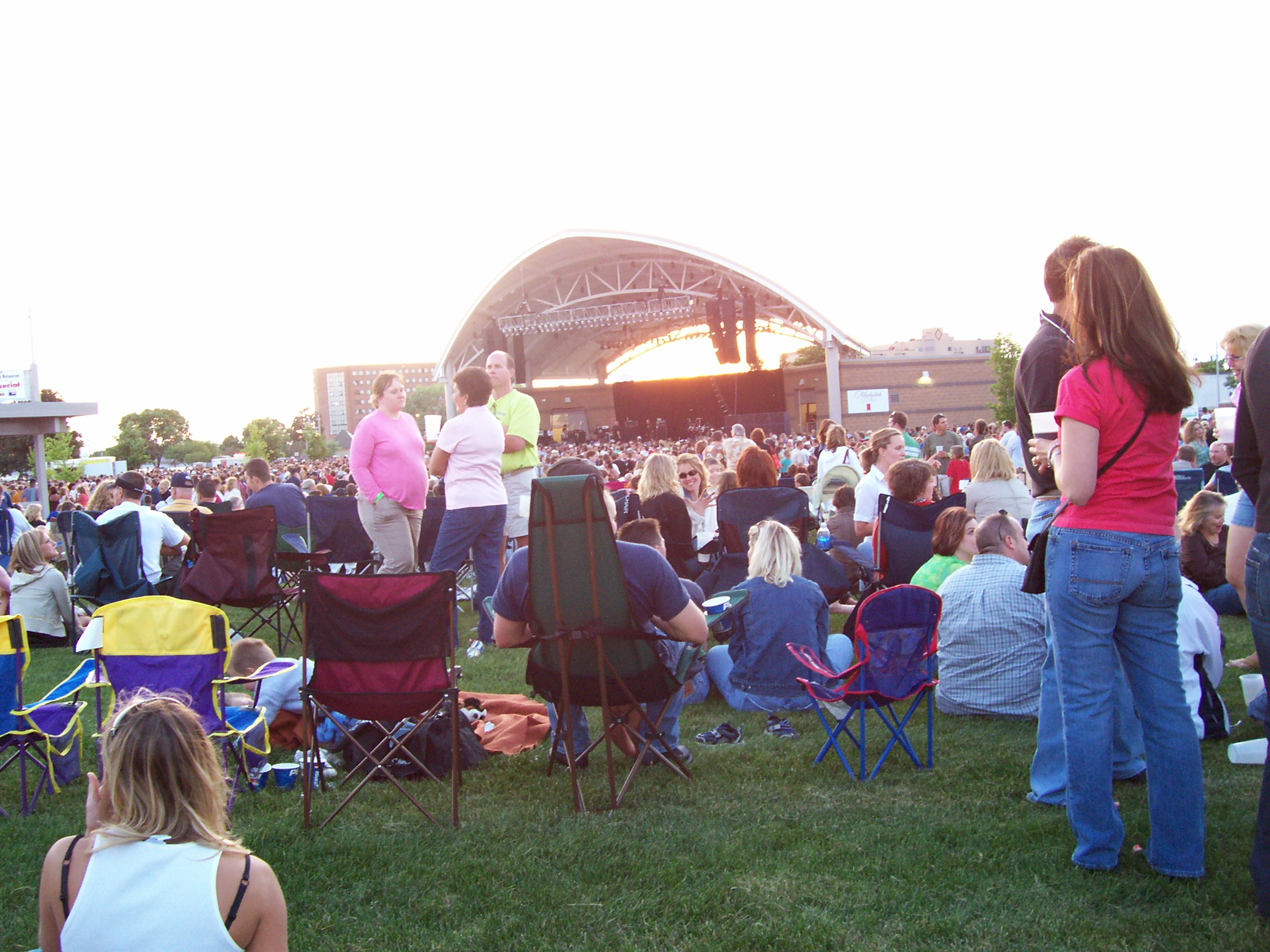 A picture taken by myself of the Waterfest crowd at Oshkosh, Wisconsin on June 8, 2006. The Leach Amphitheatre is in the background.